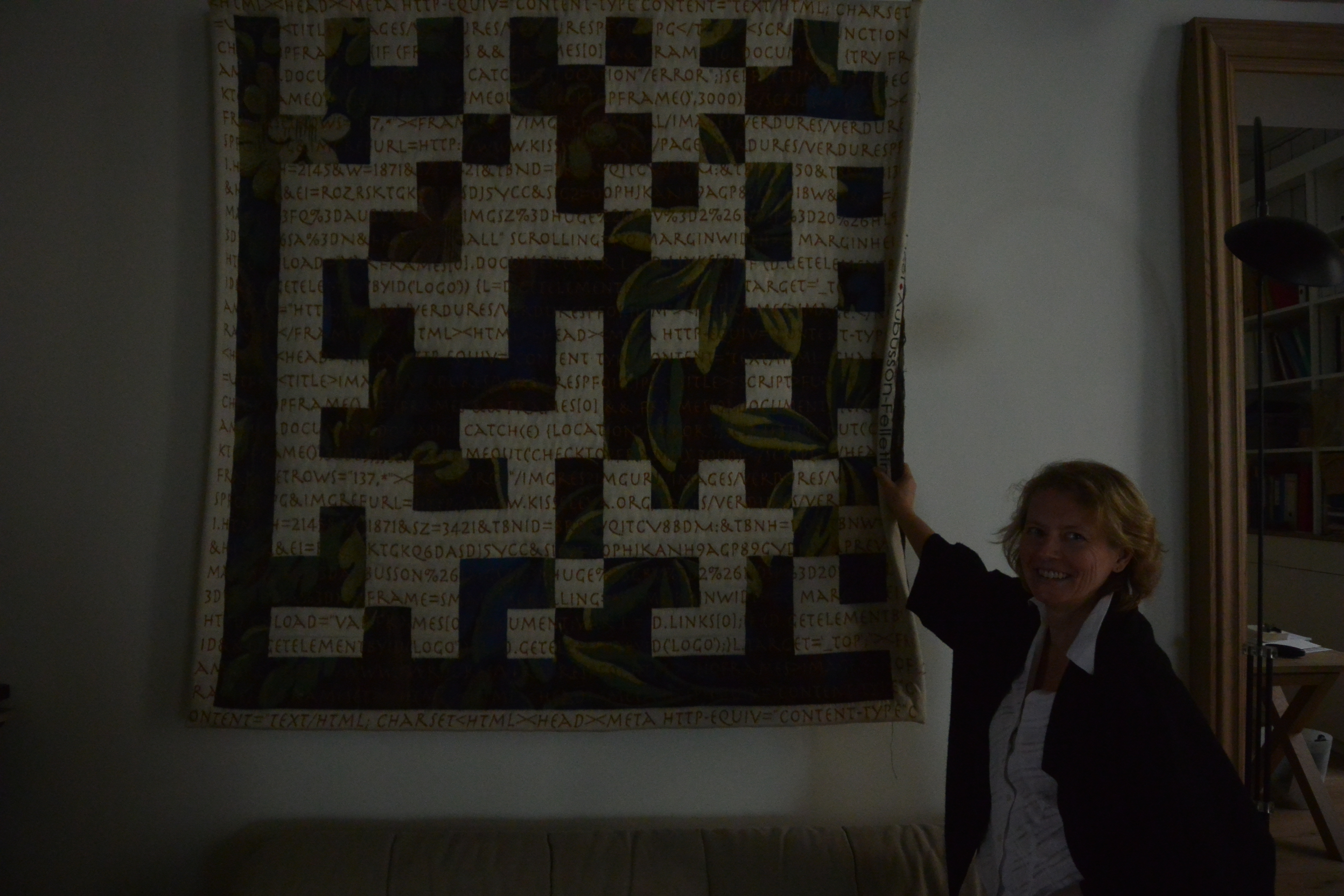 Olga Kisseleva and Source